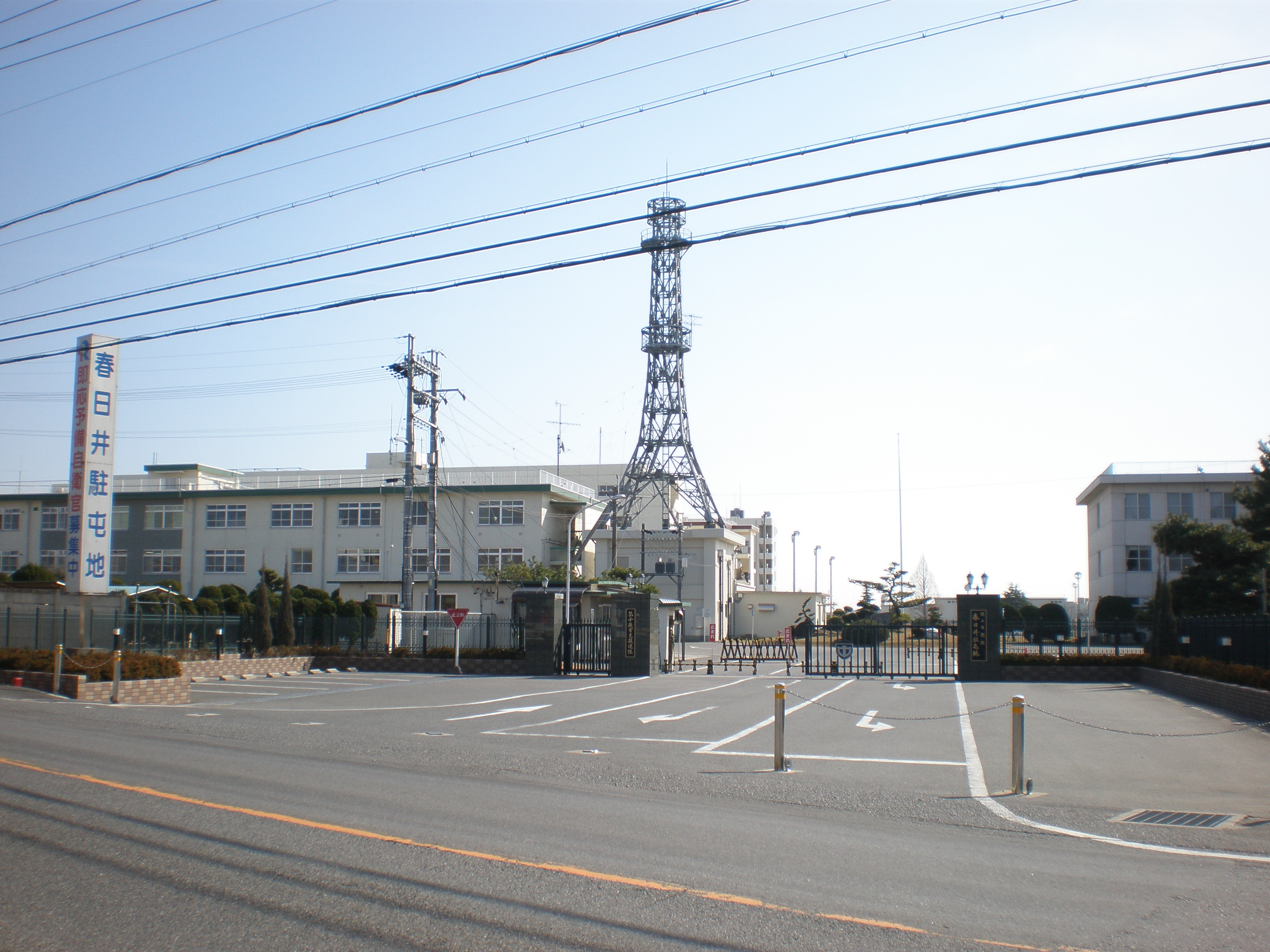 This is Kasugai camp of 10th division of Japan Ground Self Defence Force in Aichi prefecture.